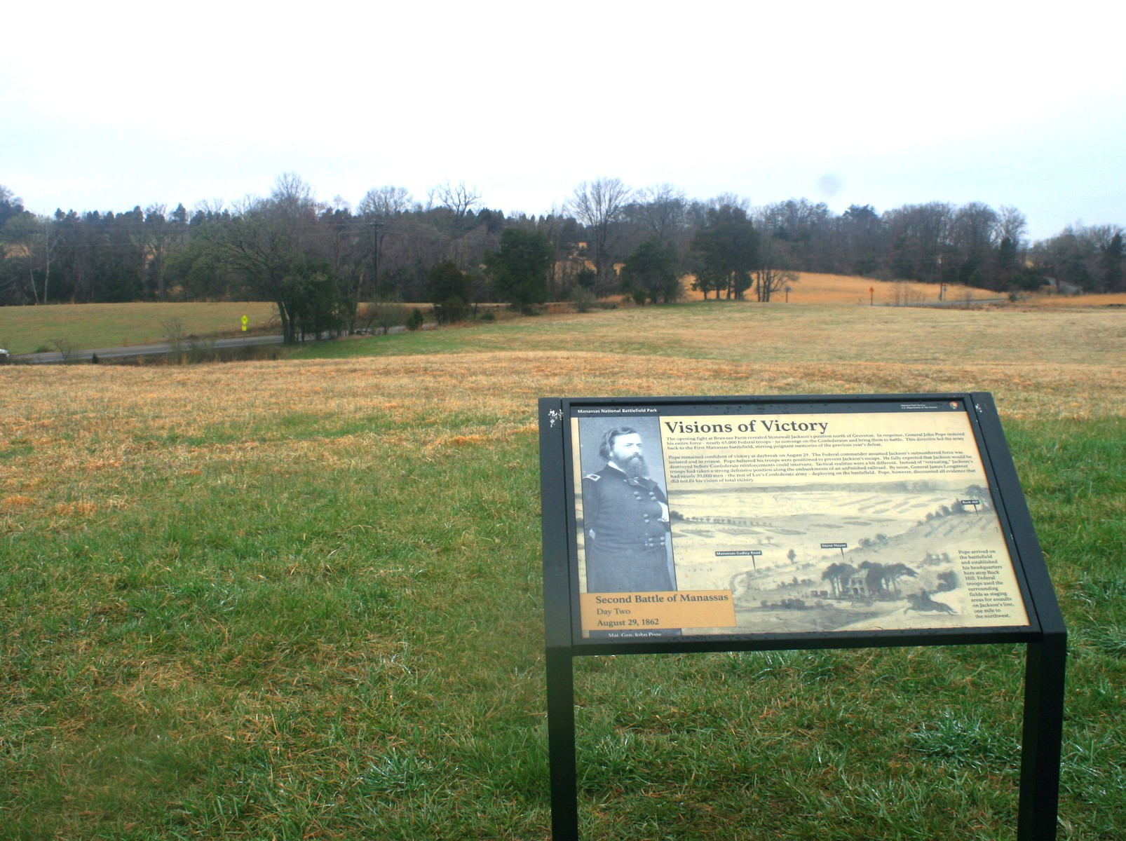 Site of general Pope headquarter at Manassas (Aug. 29, 1862)